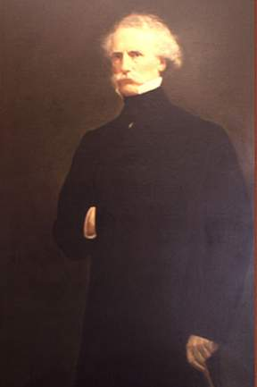 Portrait of U.S. Congressman Rufus Wheeler Peckham (1809-1873). Oil on canvas.